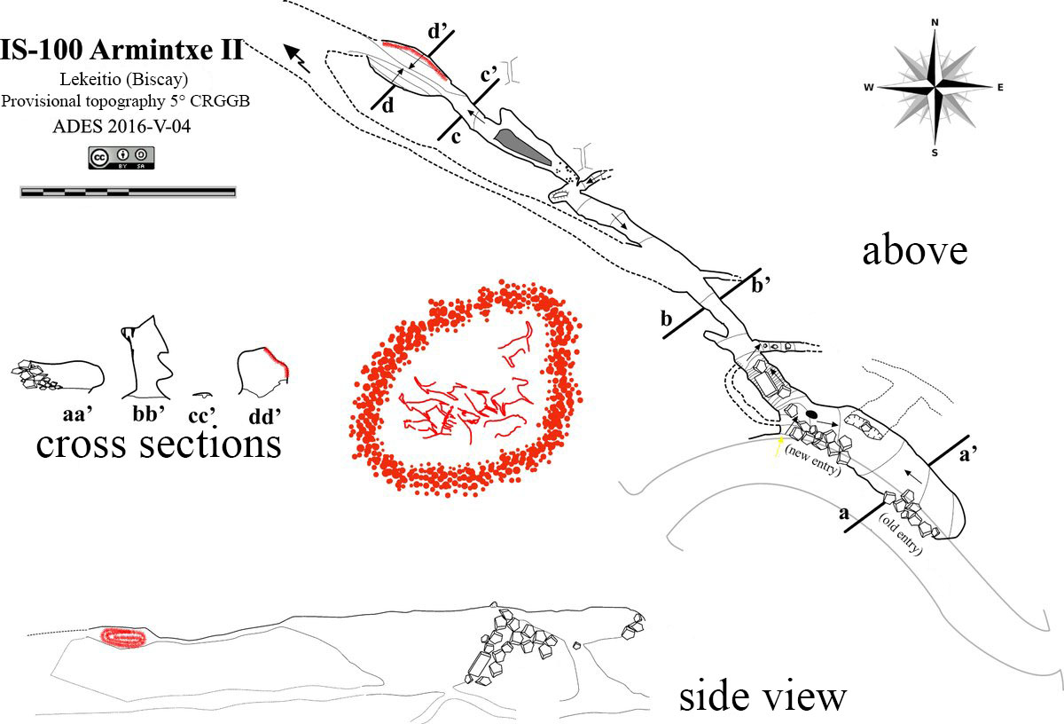 Map of Armintxe Cave.